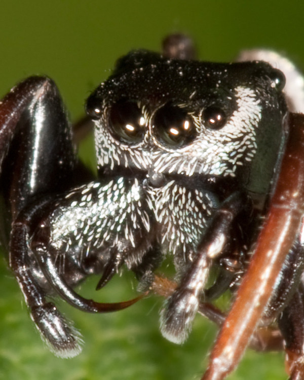 Chelicerae of adult male Zygoballus sexpunctatus jumping spider.